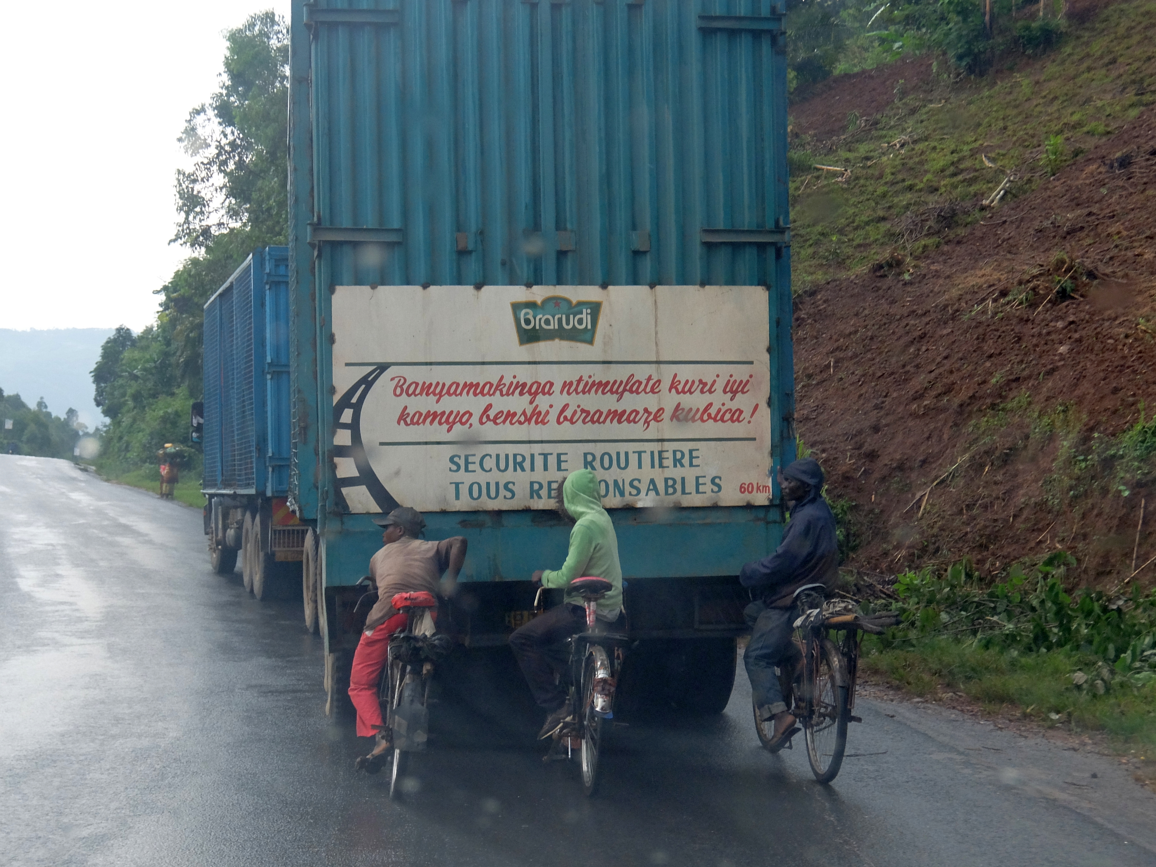 Three bicycles behind a truck in Burundi. Pictures taken on the main road from Bujumbura to Gitega. The Kirundi text on the back of the truck warns cyclists not to hold on.